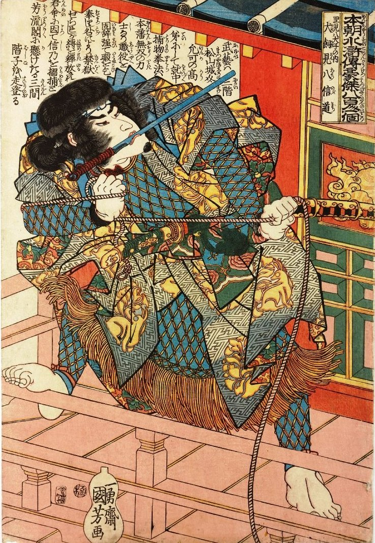 The Children of the Eight Dogs of Satomi: Inukai Genpachi Nomumichi, One of the Eight Hundred Heroes of the Water Margin of Japan.